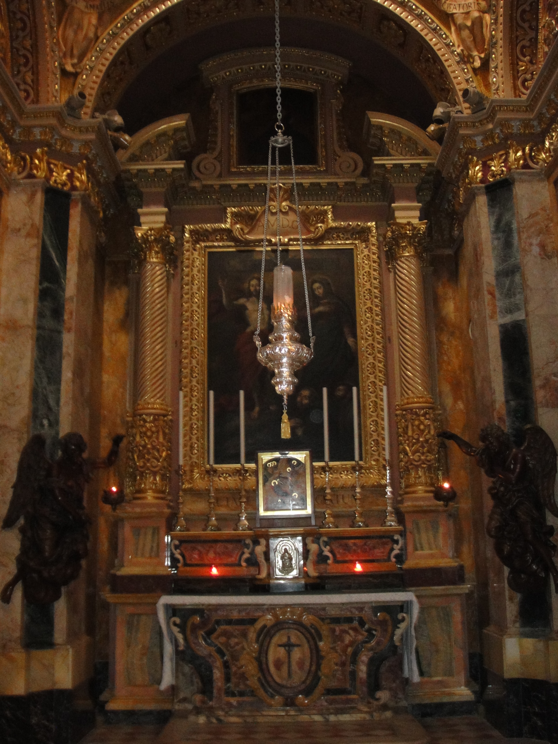 The chapel of Jesus and Mary in St George's Basilica Victoria Gozo Malta.